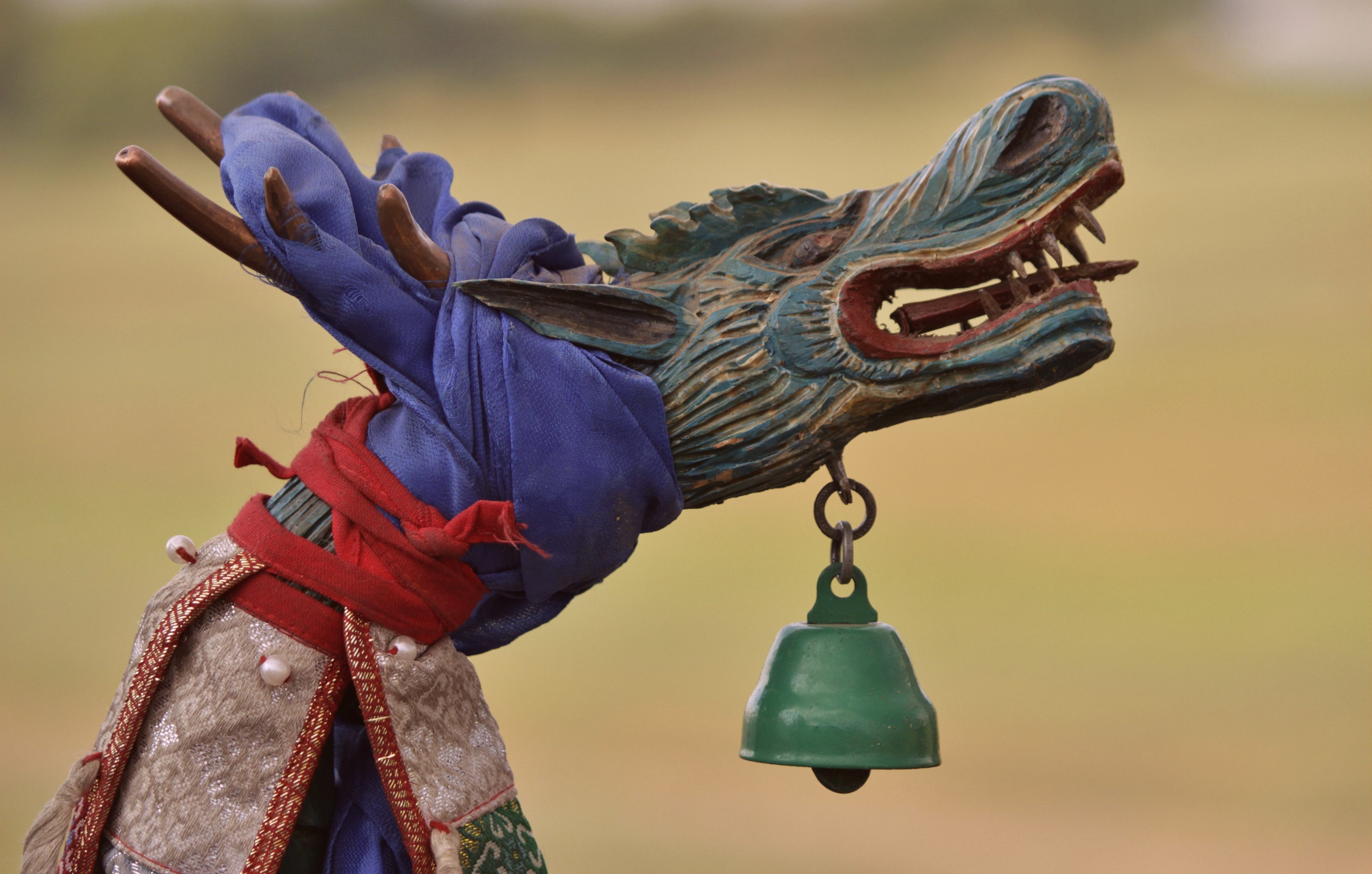 Stick of Buryat shaman. The author photographed a stick to the shamanic initiation rites "Shandruu" around Ulan-Ude City, at the foot of Tologoy. Ritual is held Buryat shaman community "Altan Serge."